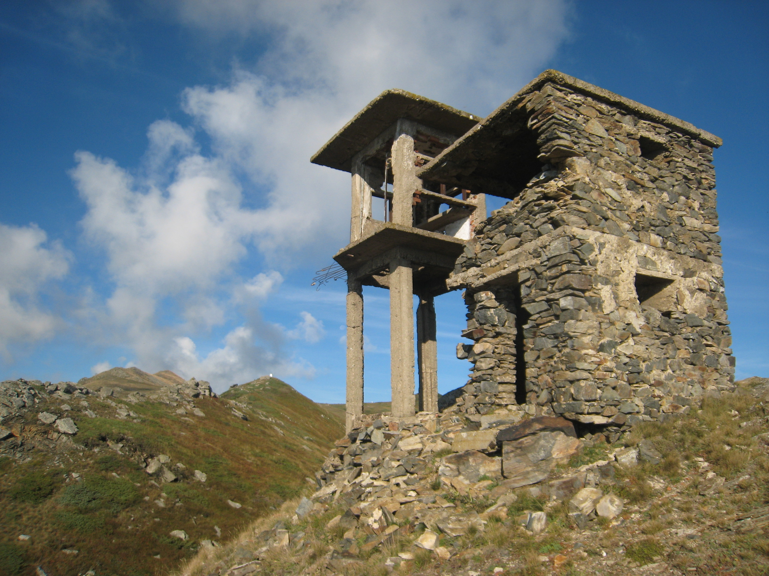 One of many ruined watchtowers in the Belasitsa range, just below the top of the ridge on the Bulgarian side, close to the main track.